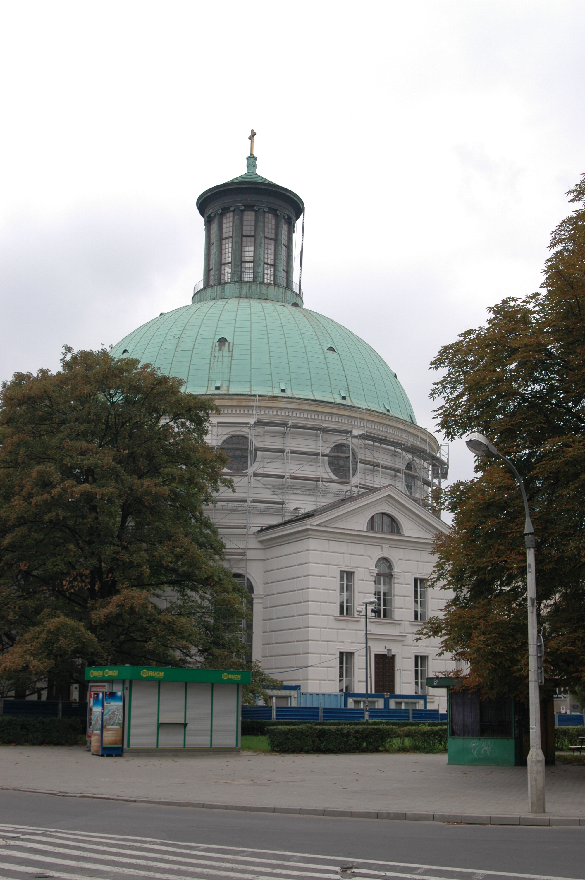 Zug's Protestant Church in Warsaw.